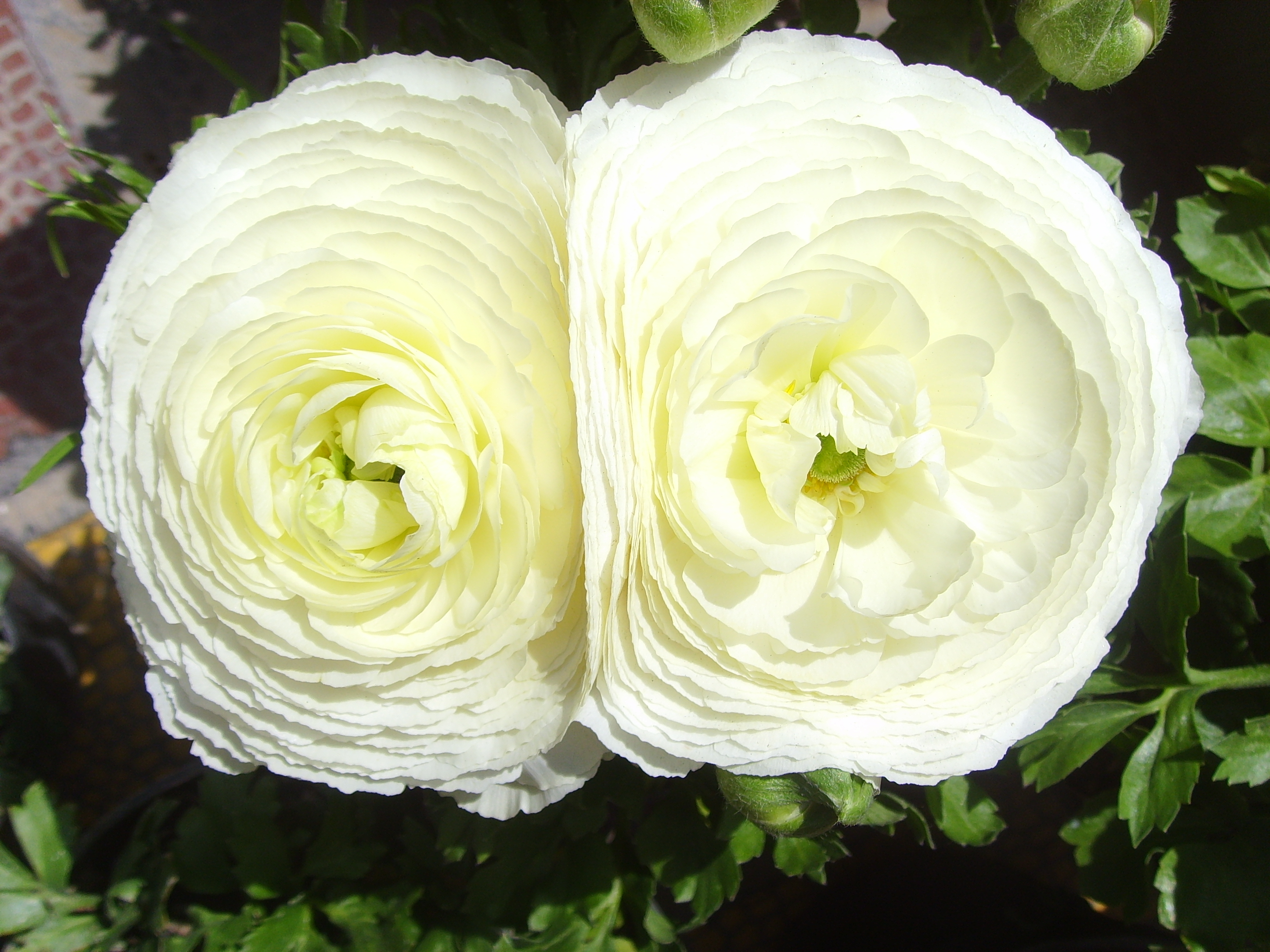 Unity of Existence